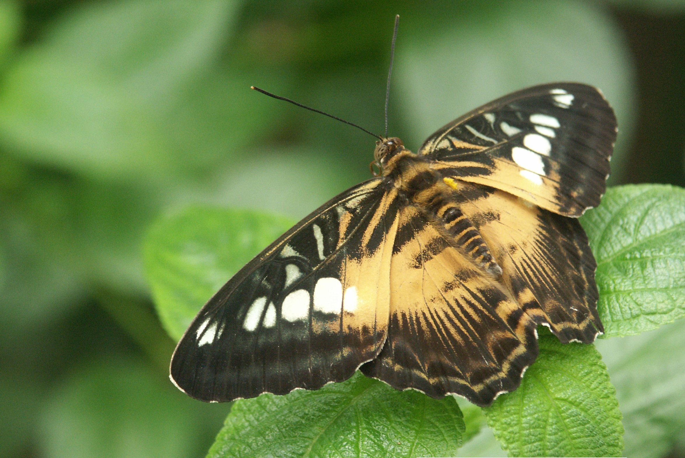 Parthenos sylvia philippensis Parthenos sylvia philippensis Subfamilia:Limenitidinae